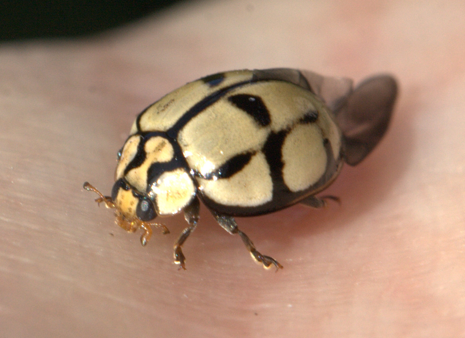 Hurlstone Park fauna